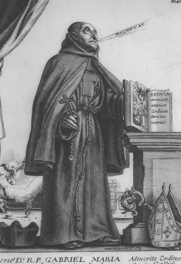 Engraving with blessed Gabriel Maria Nicolas, founder of Annunciade Nuns order